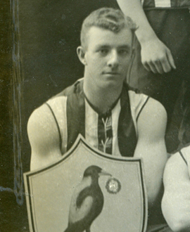 Photograph of Bob Bryce in 1901.